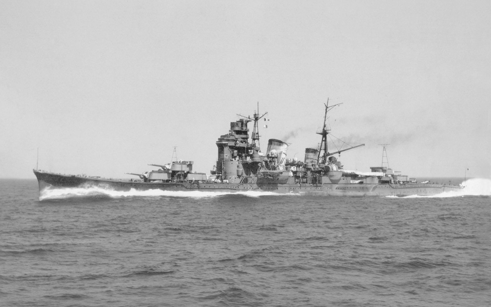 Picture of Japanese heavy cruiser Myōkō on trials after second modernization.